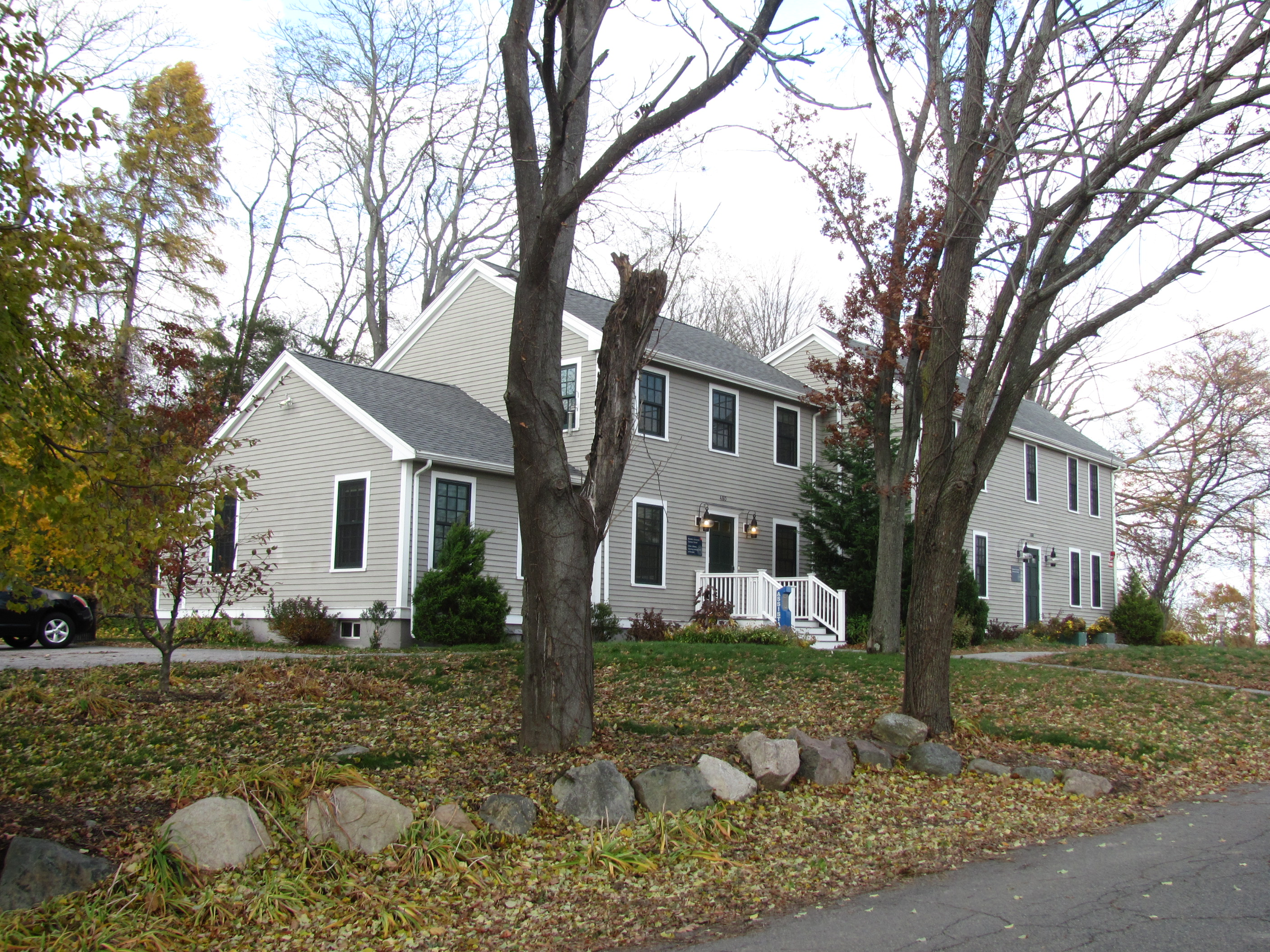 The Rabb School, Brandeis University, Waltham Massachusetts